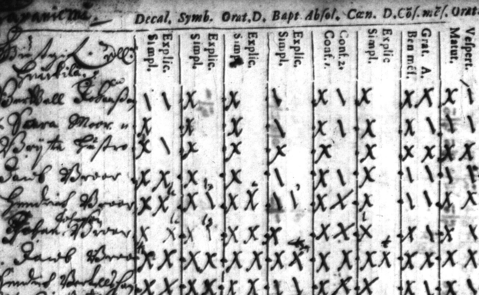 Records creator: Jokioisten seurakunta, \nArchive/Fond: Jokioisten seurakunnan arkisto, \nSeries: Pää- ja rippikirjat, \nUnit: Rippikirjat, \nInclusive dates: 1695 - 1740\n